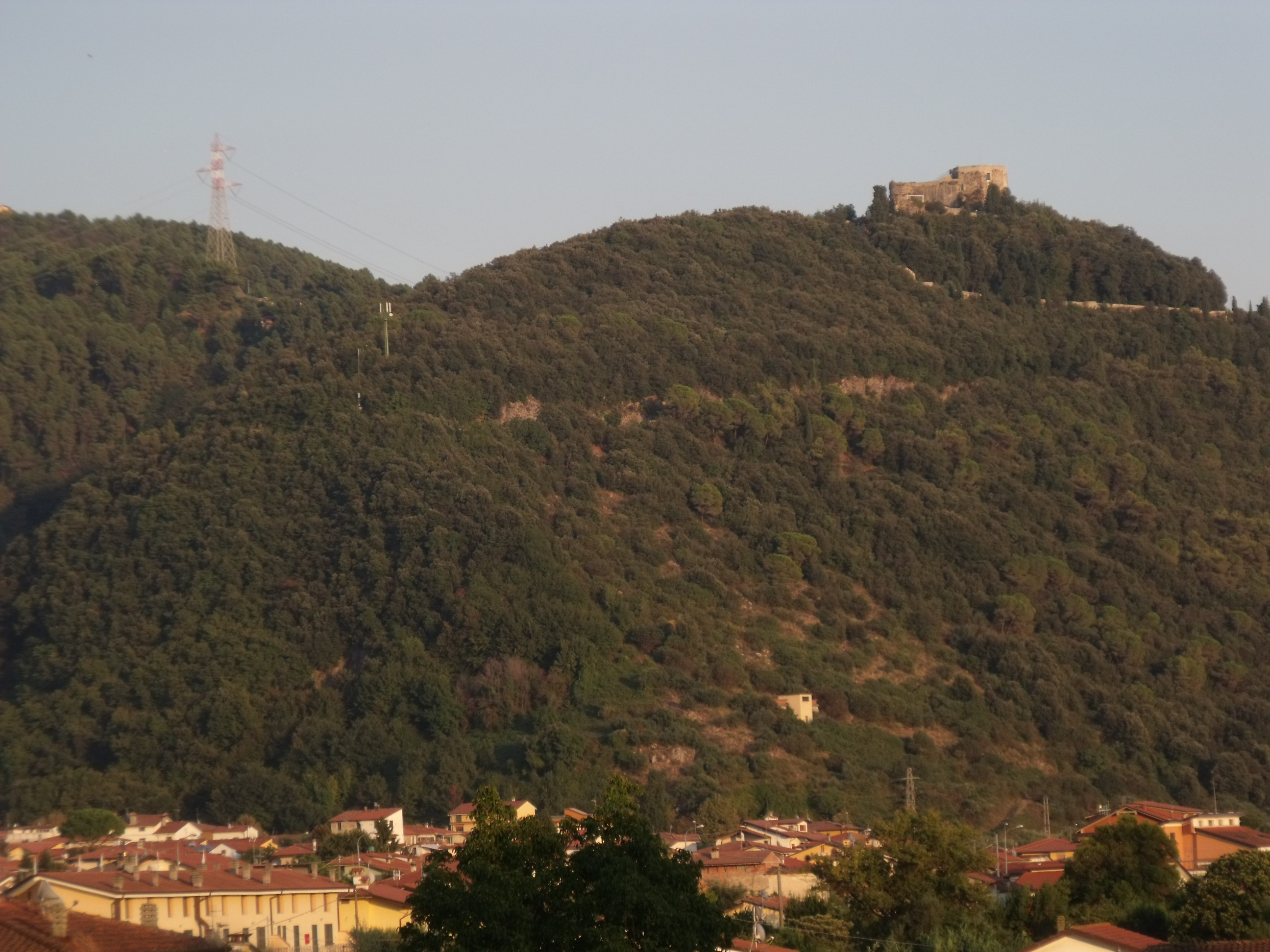 Montignoso and the Castle Castello Aghinolfi, Province of Massa Carrara, Tuscany, Italy